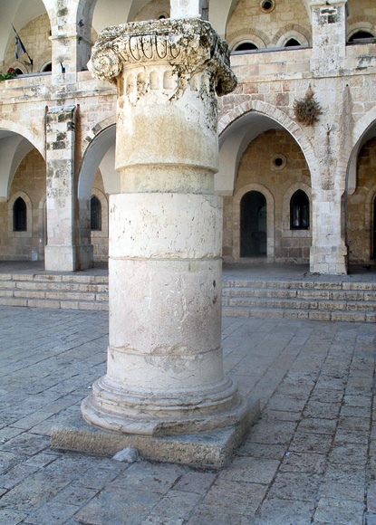 Pillar in front of Batey Mahase, the old city of Jerusalem, Israel